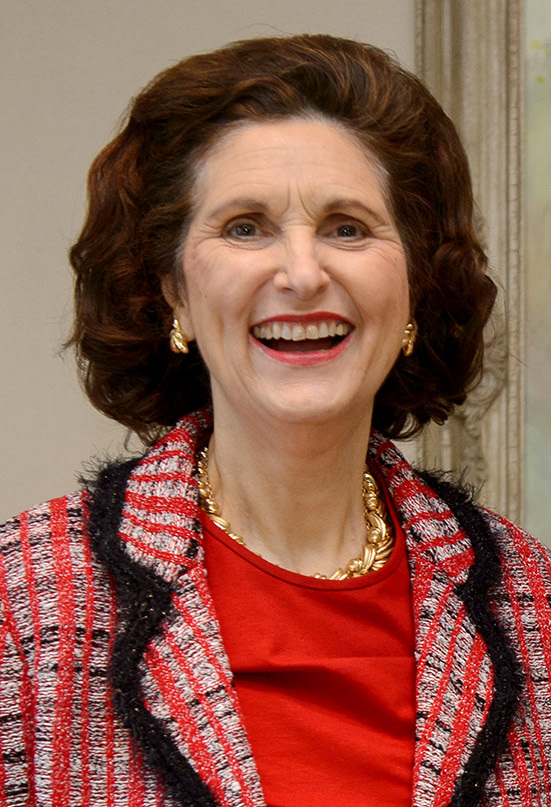 (L-R) Lynda Bird Johnson Robb, President Jimmy Carter and Rosalynn Carter at The Carter Center in Atlanta, GA.